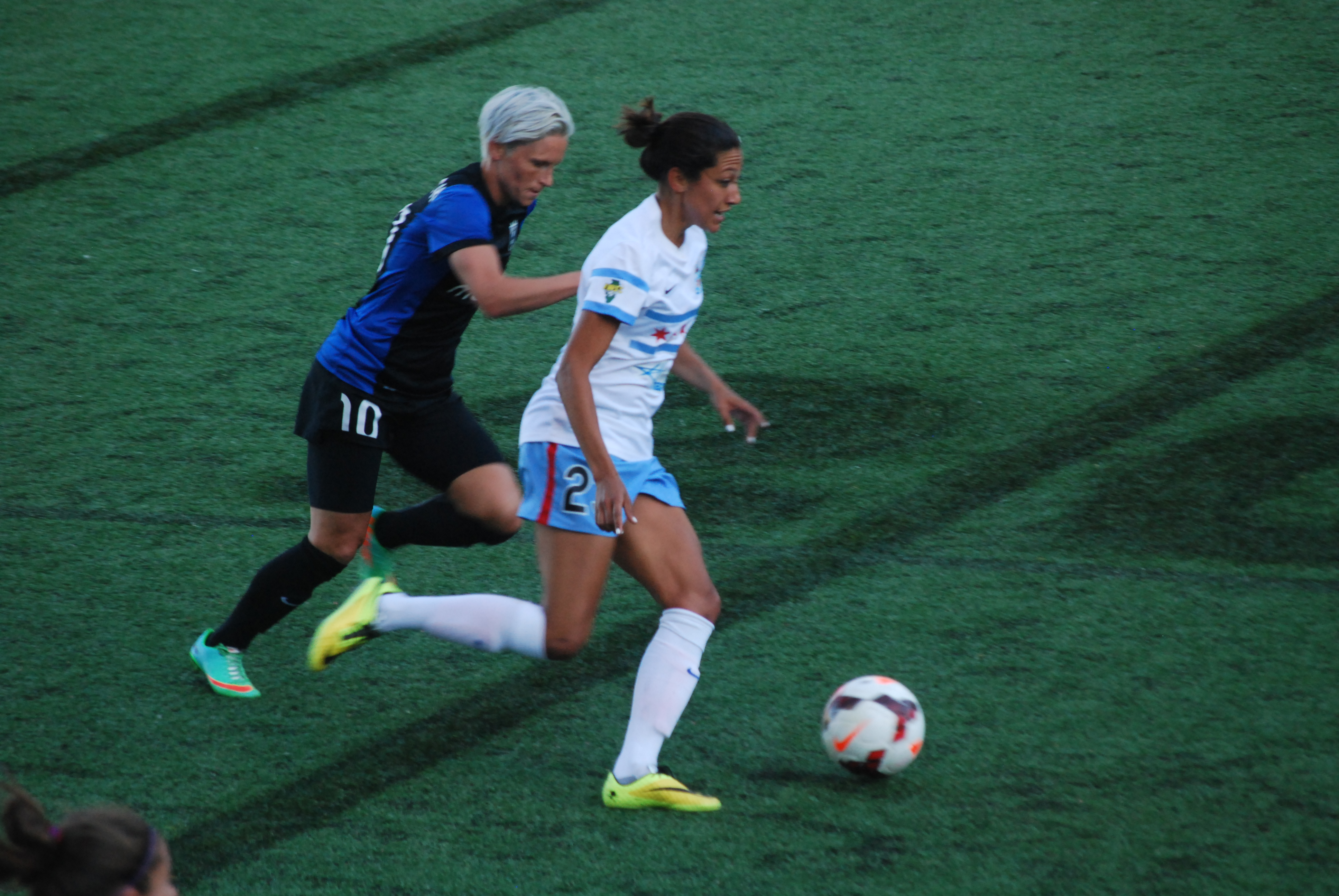 Jessica Fishlock and Christen Press (2014)